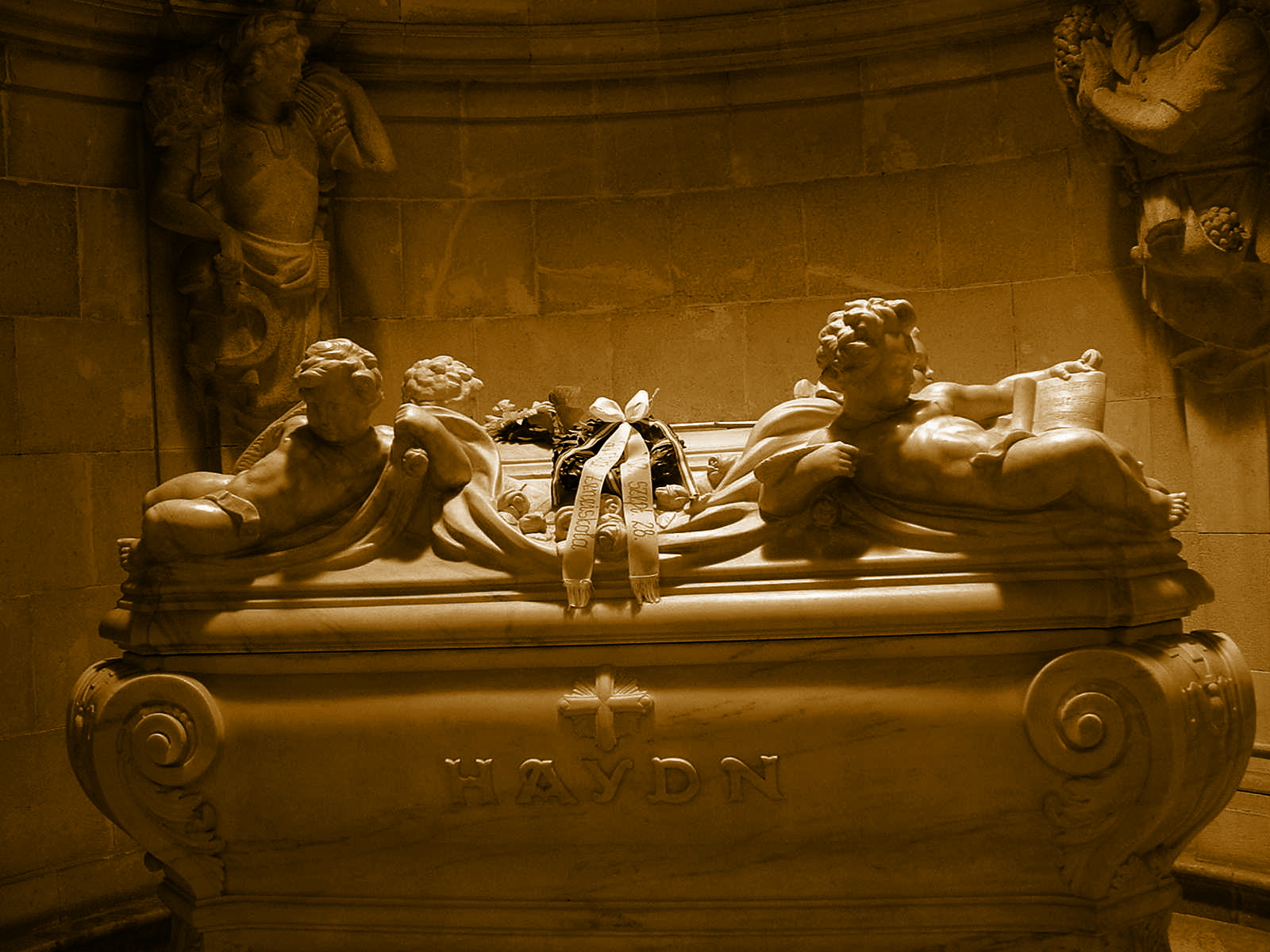 Joseph Haydn's tomb in Eisenstadt, Austria